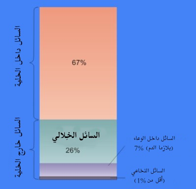 Cellular Fluid Content